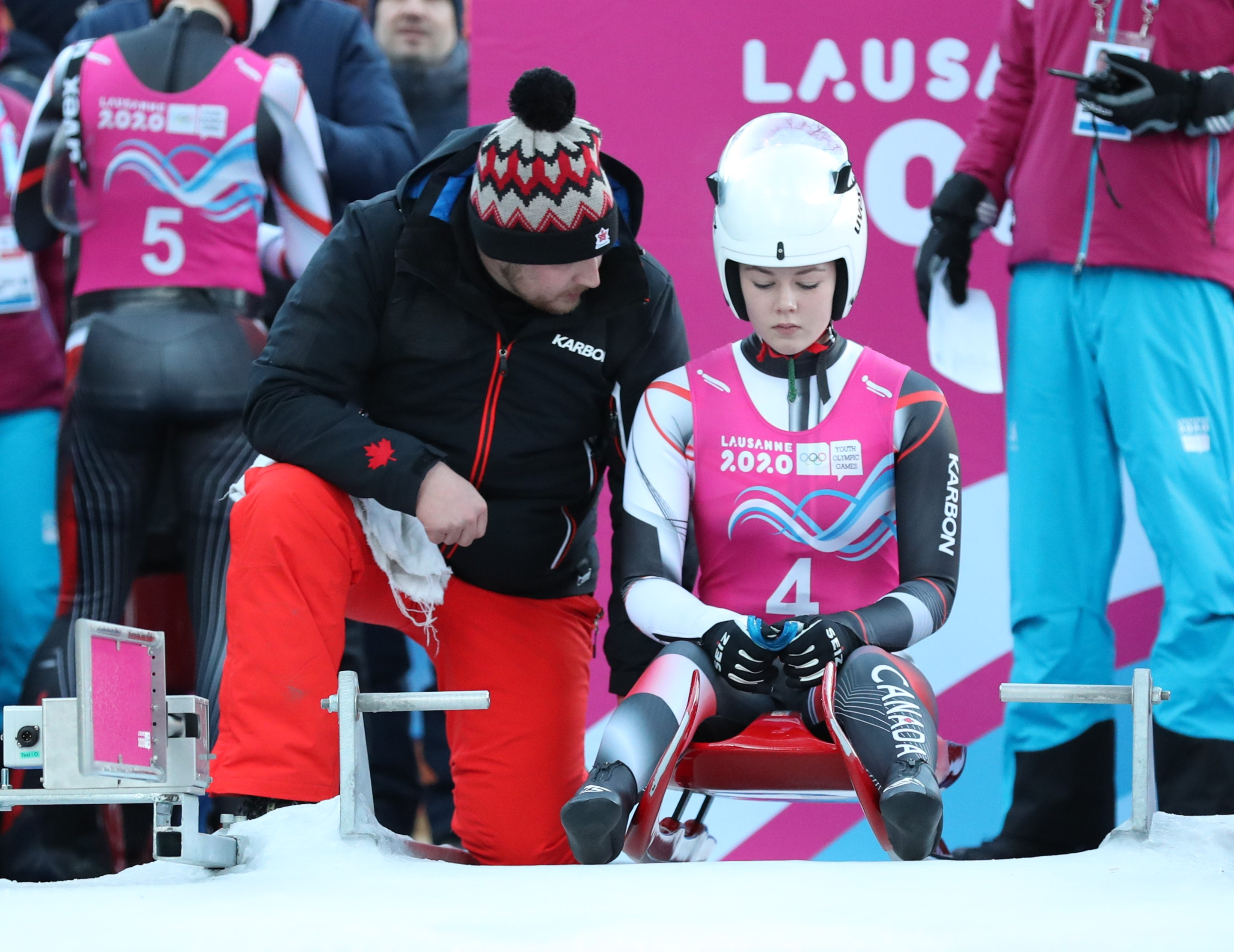 1st run Luge Women's Single at the 2020 Winter Youth Olympics in Lausanne